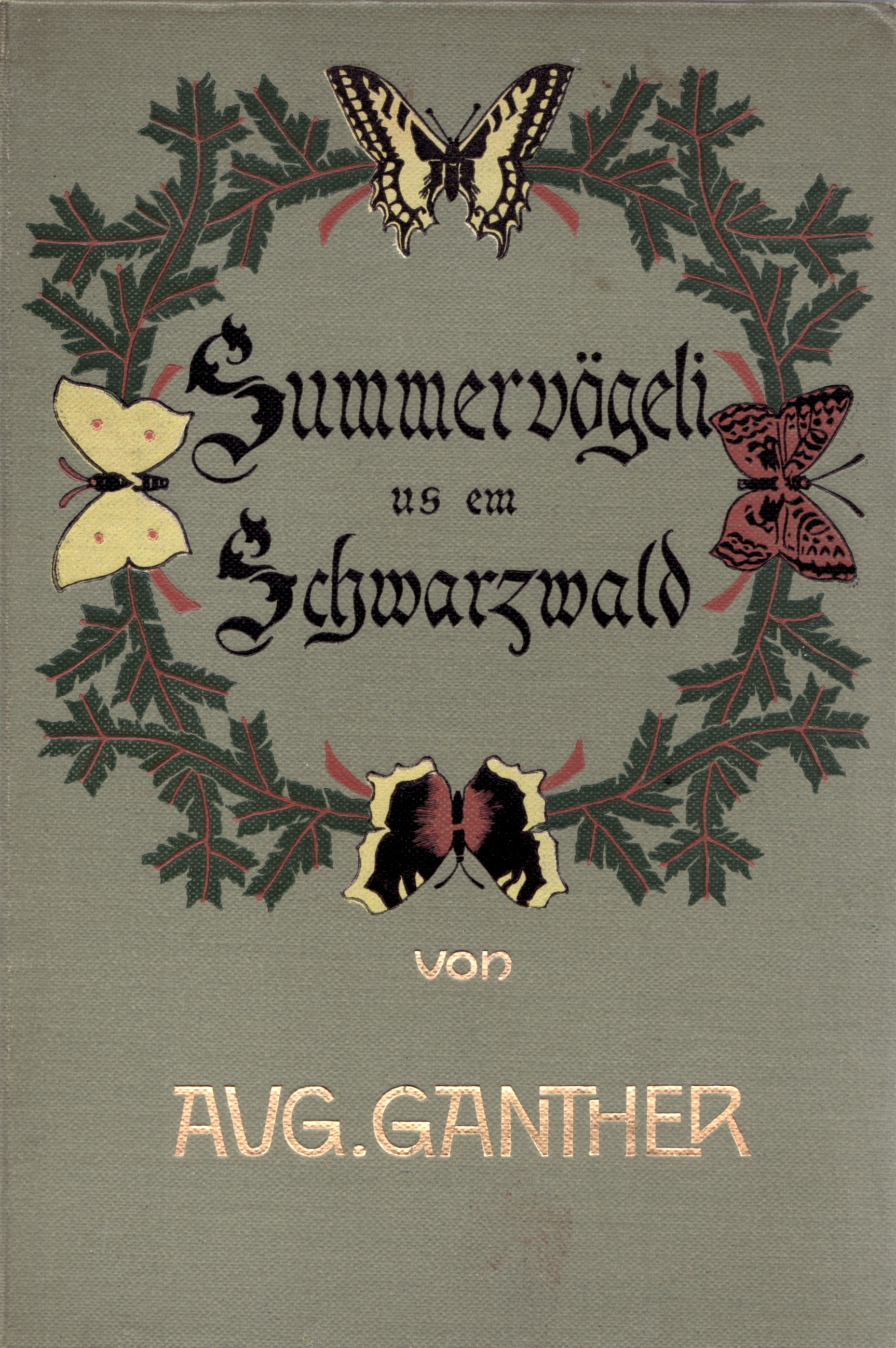 titlepage of August Ganter, Summervögeli